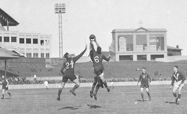 Players contest a mark at the 1933 Australian Rules Football National Carnival at the Sydney Cricket Ground. Victoria v. unknown state (possibly Tasmania).